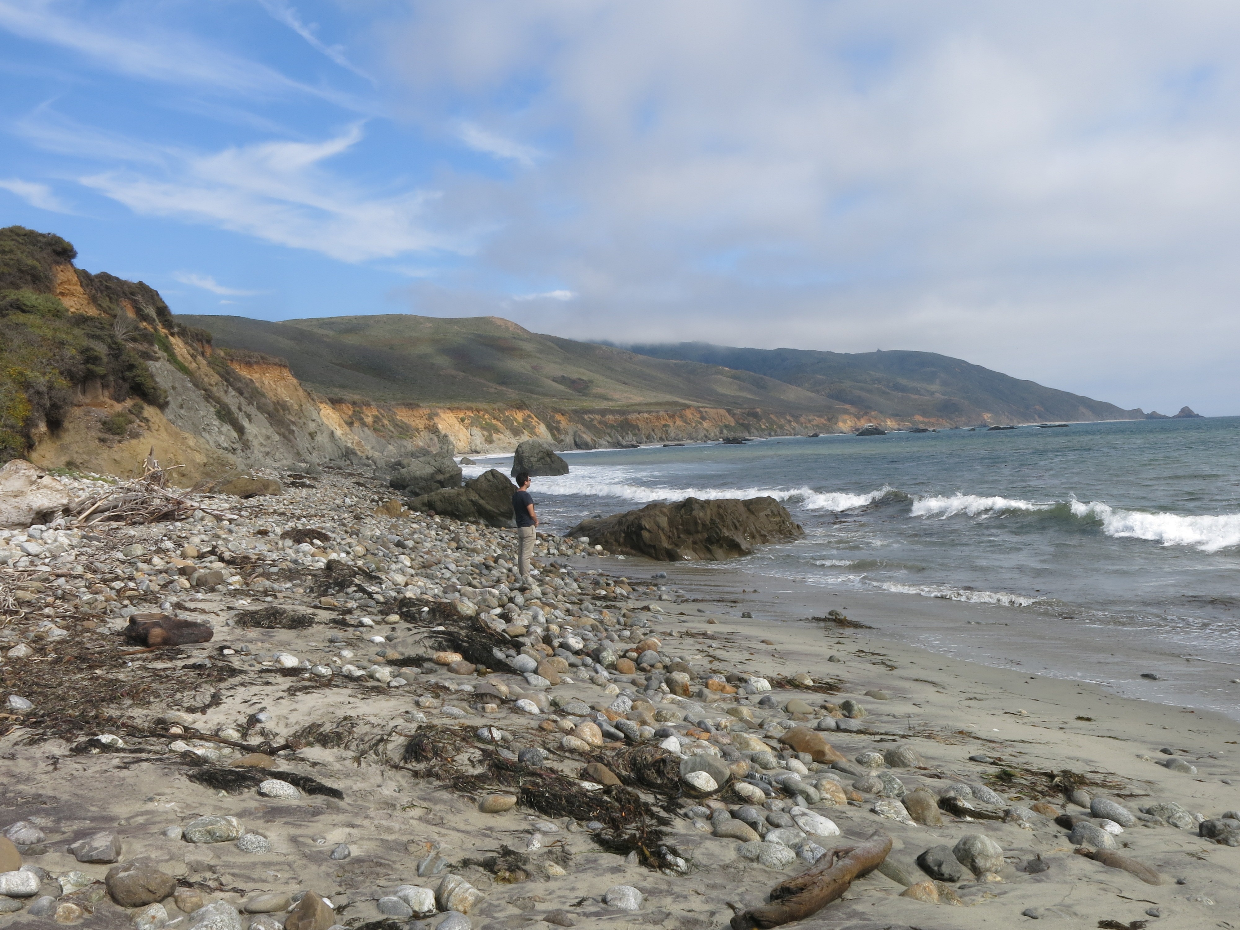 The state beach at Andrew Moldera State Park.